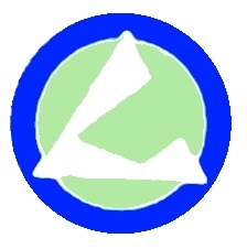 Mutsuzawa Chiba chapter